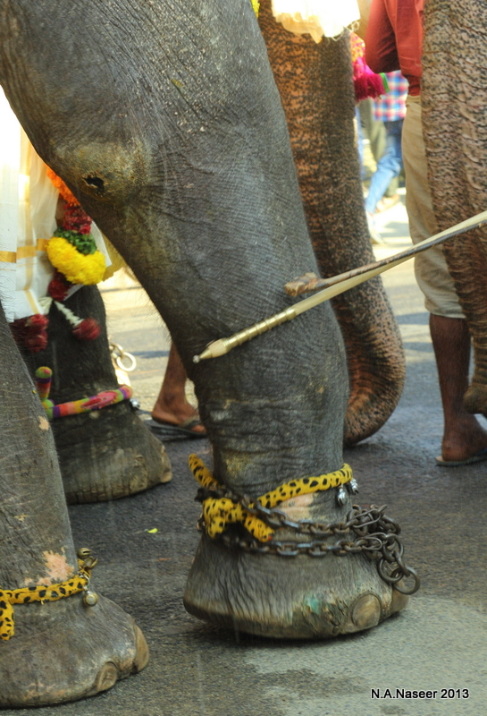 Captive Elephants of Kerala, Cruelty against elephants, Aanapremam, Thrissur Pooram, Festivals of Kerala, Elephants in captivity, Temples of Kerala